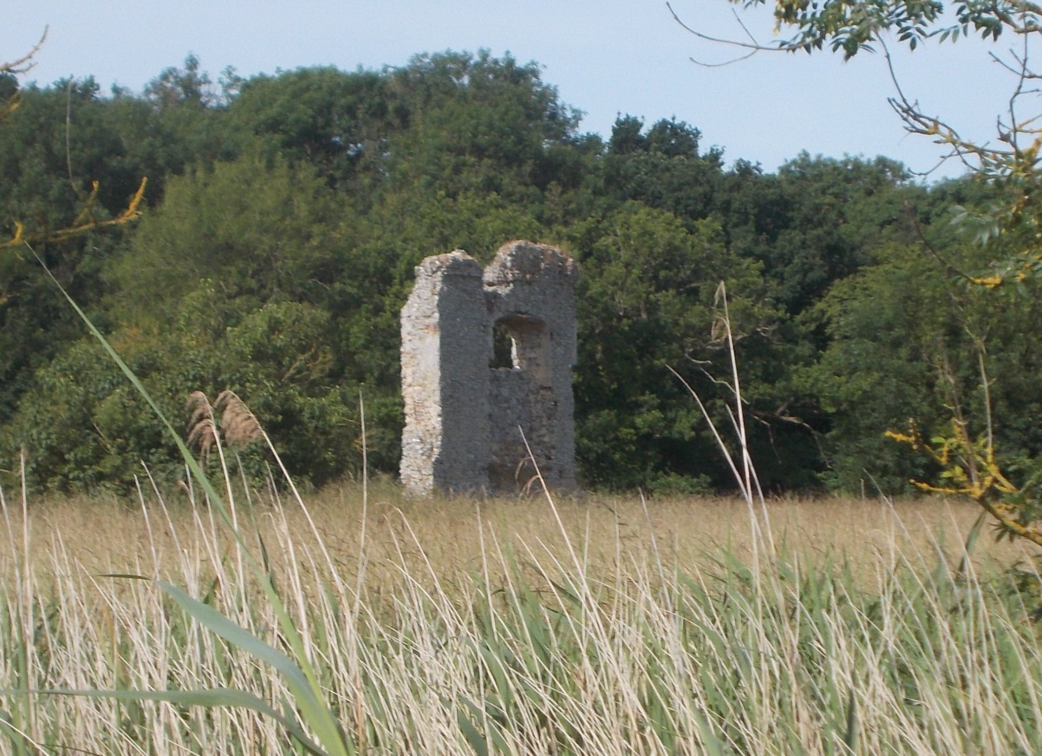 Fragment of the south wall of the south range of Flixton Priory, probably the refectory